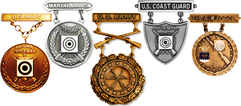 Example images of the U.S. Armed Force's Excellence-In-Competition (EIC) Badges